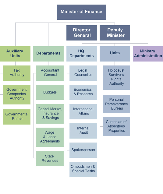 Structure of the Israeli Ministry of Finance